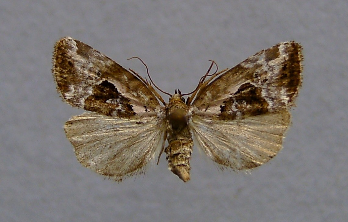 Elaphria venustula, Spandau, Berlin, Germany